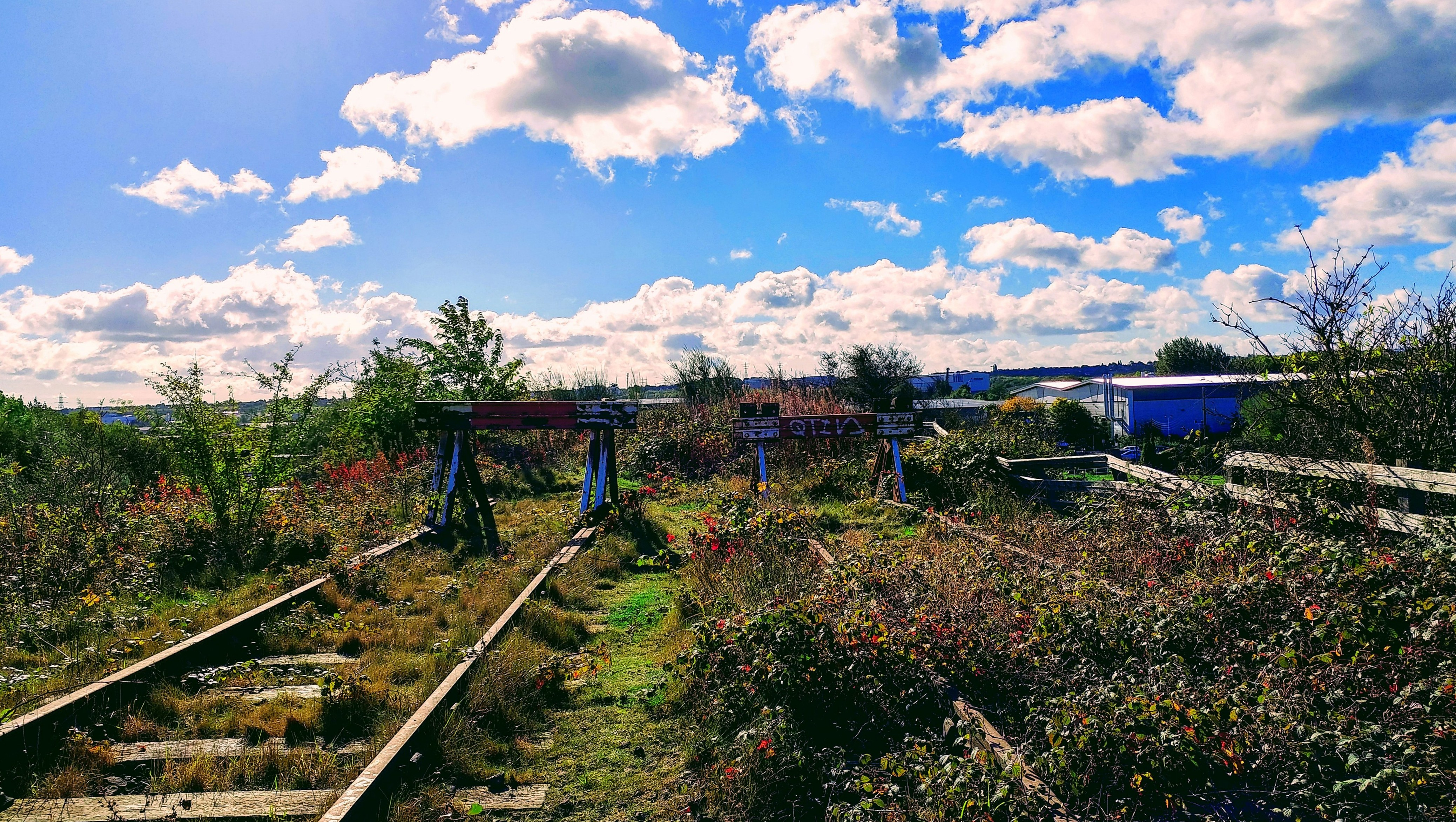 In and around the old Hunslet Goods Yard area...